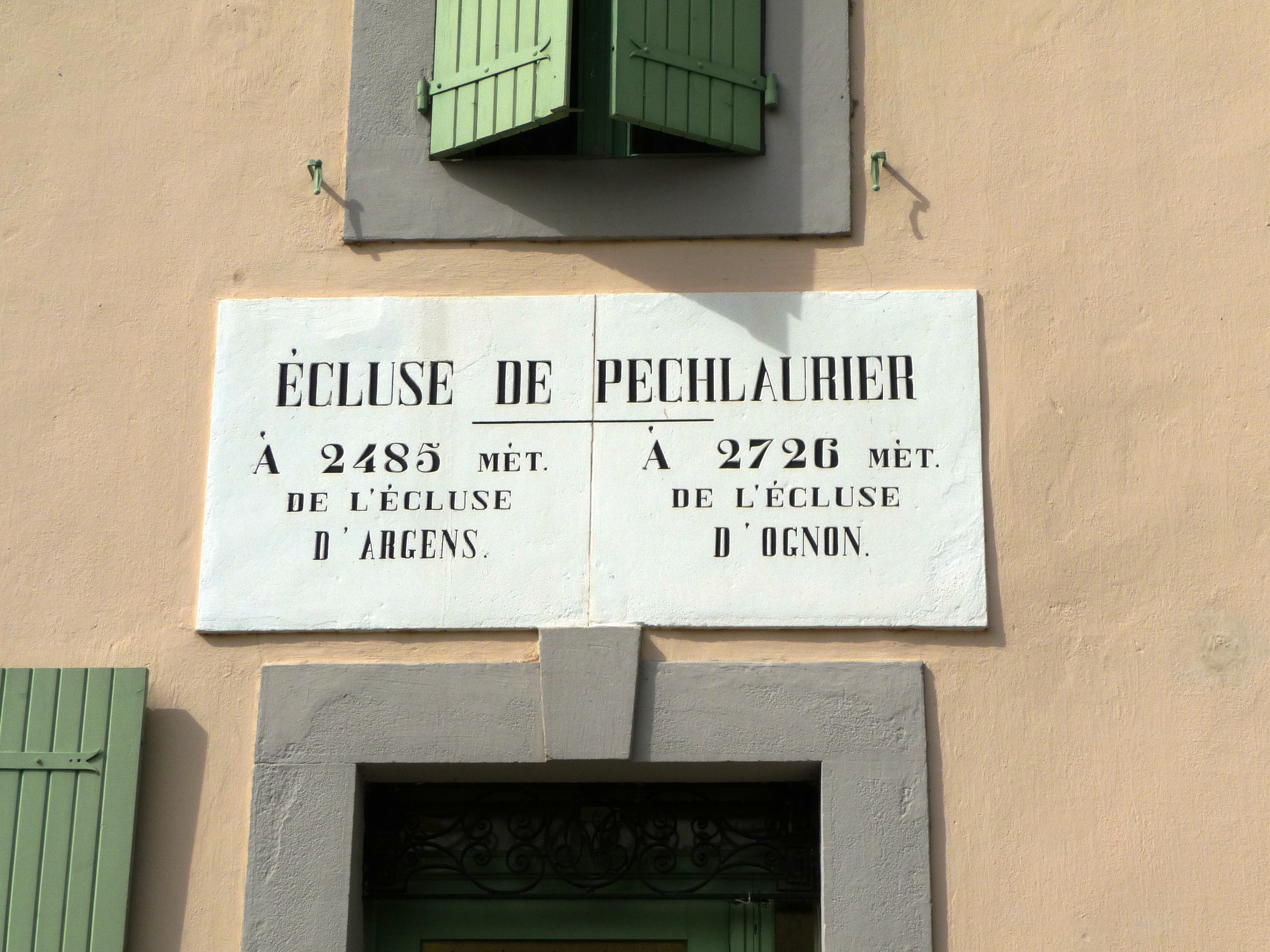 Sign on the lock-keepers house at Pechlaurier Lock on the Canal du Midi